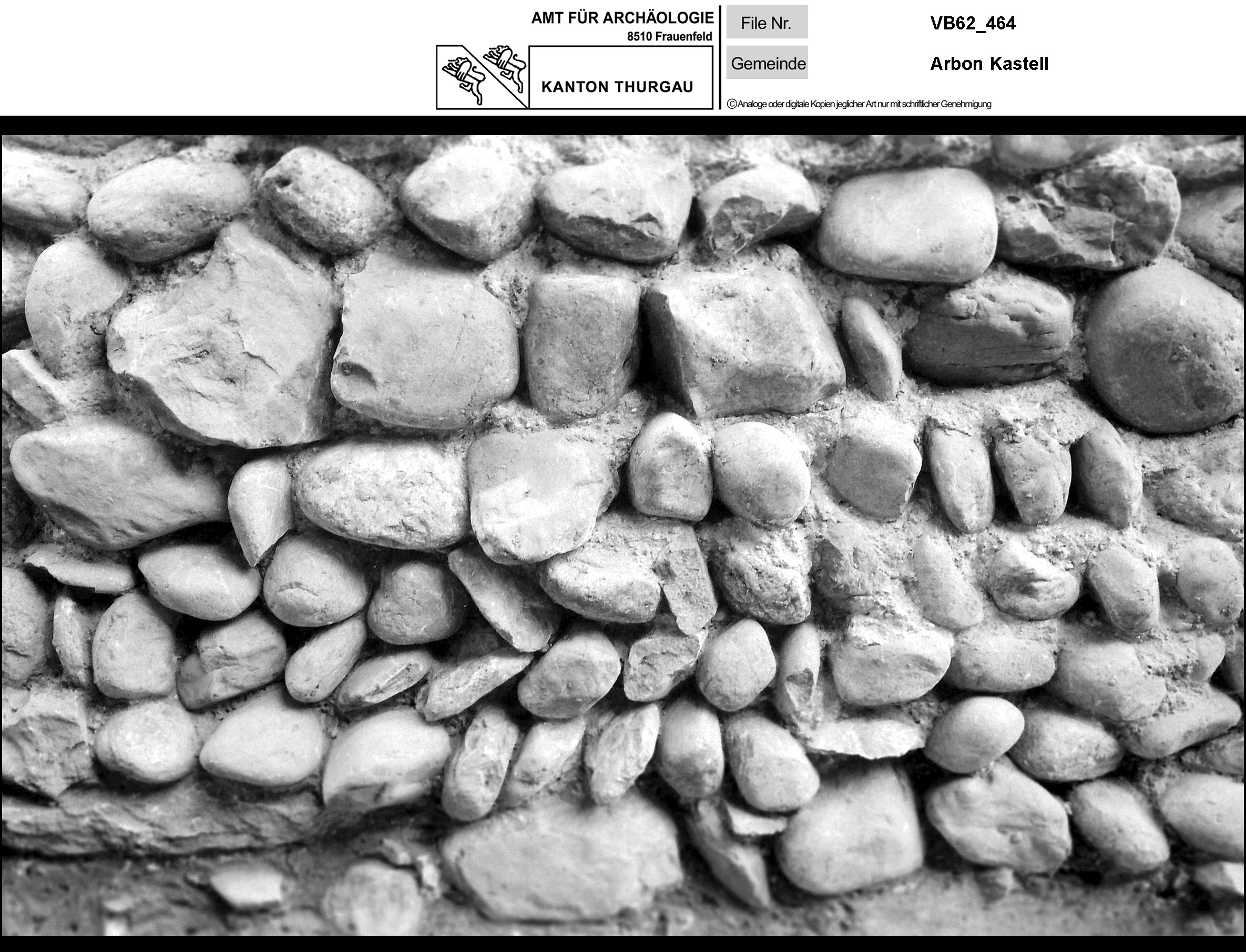 Detail view wall, excavation 1961, roman castle in Arbon (CH).